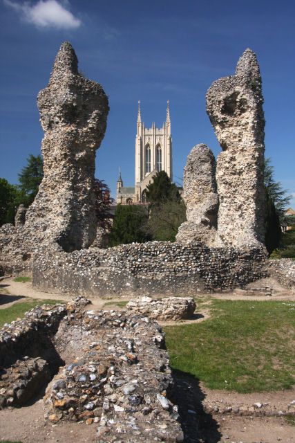 Abbey ruins and St Edmundsbury Cathedral, near to Bury st Edmunds, Suffolk, Great Britain. The ruins of Bury St Edmunds Abbey provide a frame for the new tower of St Edmundsbury Cathedral.